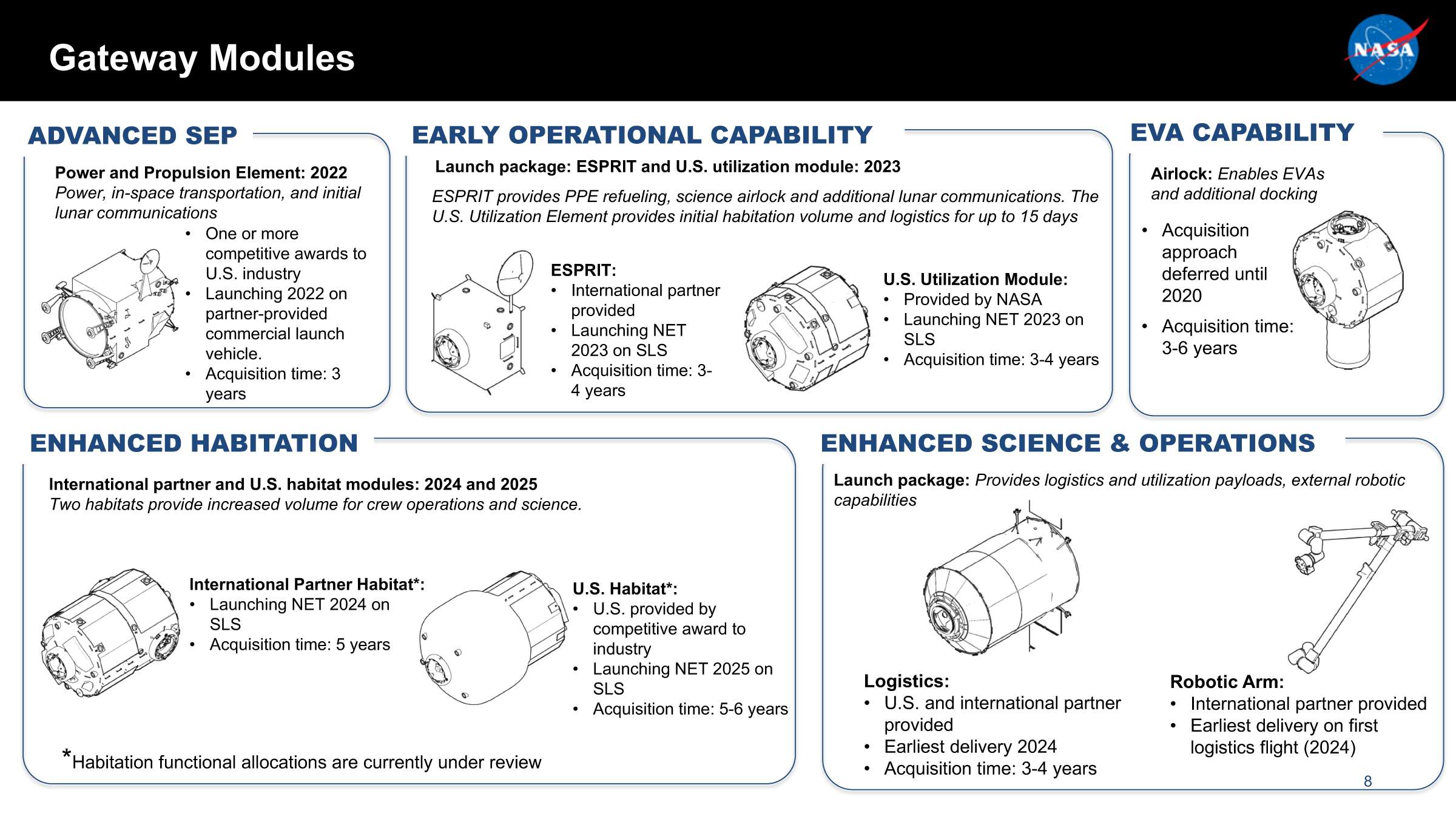 Lunar Orbital Platform-Gateway Modules